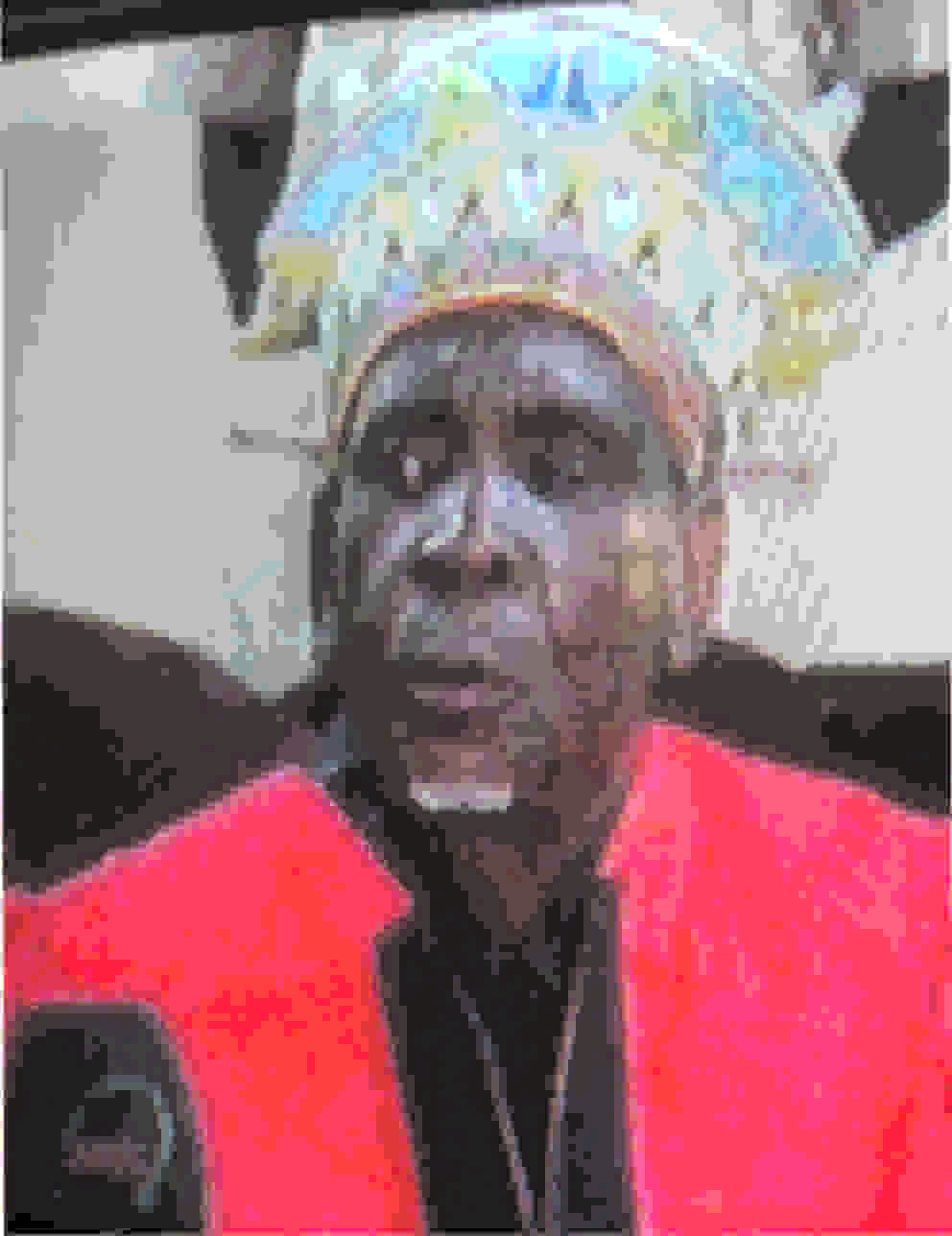 Chief Mwene Chiyengele Chingumbe III during an interview at hisn palace during his Mbunda Liyoyelo Traditional Ceremony in the year 2010